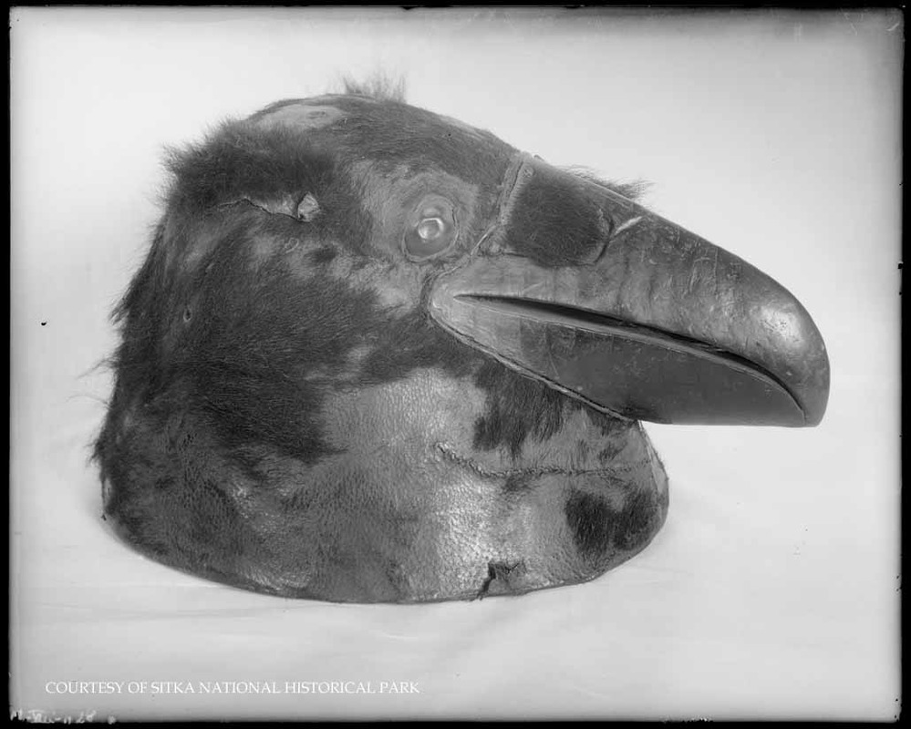 Photograph of the raven hat/helmet that was worn by the Tlingit chief K'alyaan (sometimes spelled as Katlian) in the Battle of Sitka. It is currently housed in the Sheldon Jackson Museum in Sitka, Alaska. The hat was first brought to the museum in 1905 following a potlatch in 1904 by a man who was also named K'alyaan. This K'alyaan handed the helmet to Gov. John G. Brady while saying that doing this was a symbol of "giving up the ol time". Photograph provided by Sitka National Historical Park. National Park Service Purchase Order P15PX03654 (Solicitation Number P15PS02131) "Conservation & Digitization of Glass Plate Negative Collection for Sitka National Historical Park"